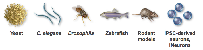 This is a cropped image of a chart from the journal article "Modelling amyotrophic lateral sclerosis: progress and possibilities". Fig. 2. Model systems in ALS research. A summary of the advantages and limitations of the different model systems – yeast, C. elegans, Drosophila, zebrafish, rodents and iPSC-derived neurons – currently used to study ALS.